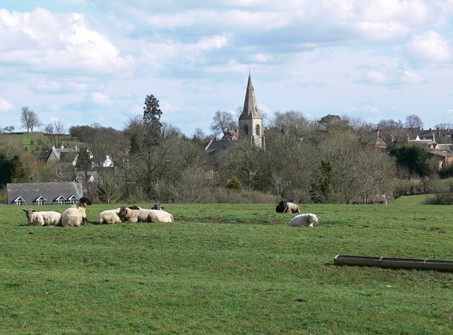 Seep at pasture in Billesdon, Leicestreshire, with the spire of St John the Baptist parish church spire above some trees